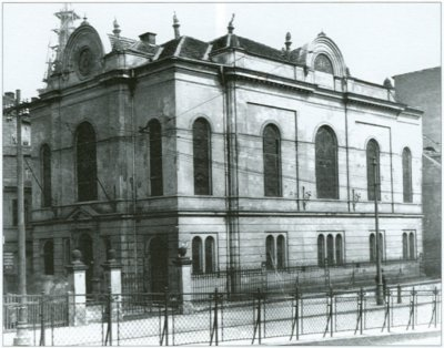 Synagogue in Ústí nad Labem, 1880